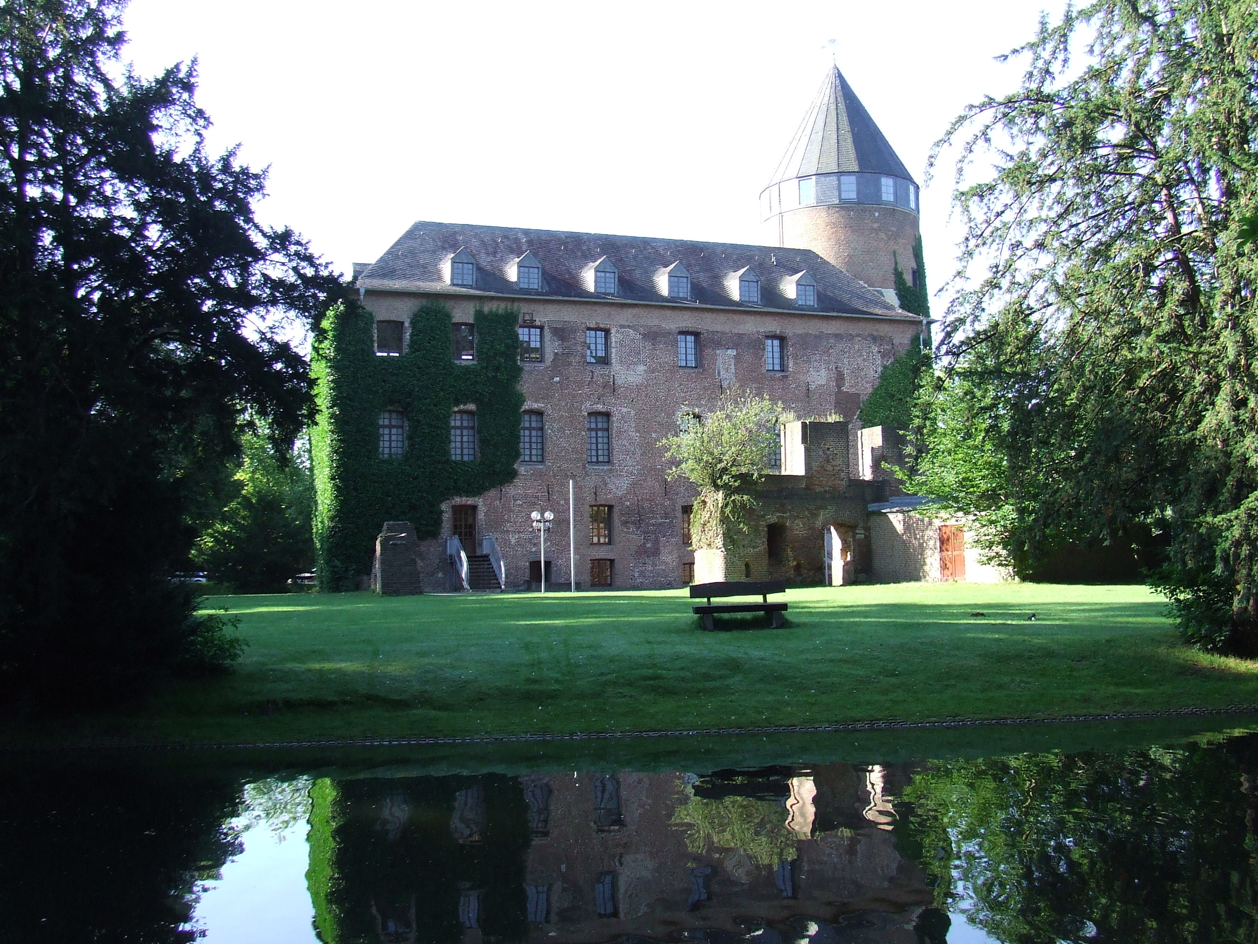 Foto van kasteel Brüggen (Burg Brüggen) This image shows a heritage building in Germany, located in the North Rhine-Westphalian city Brüggen (no. 2).